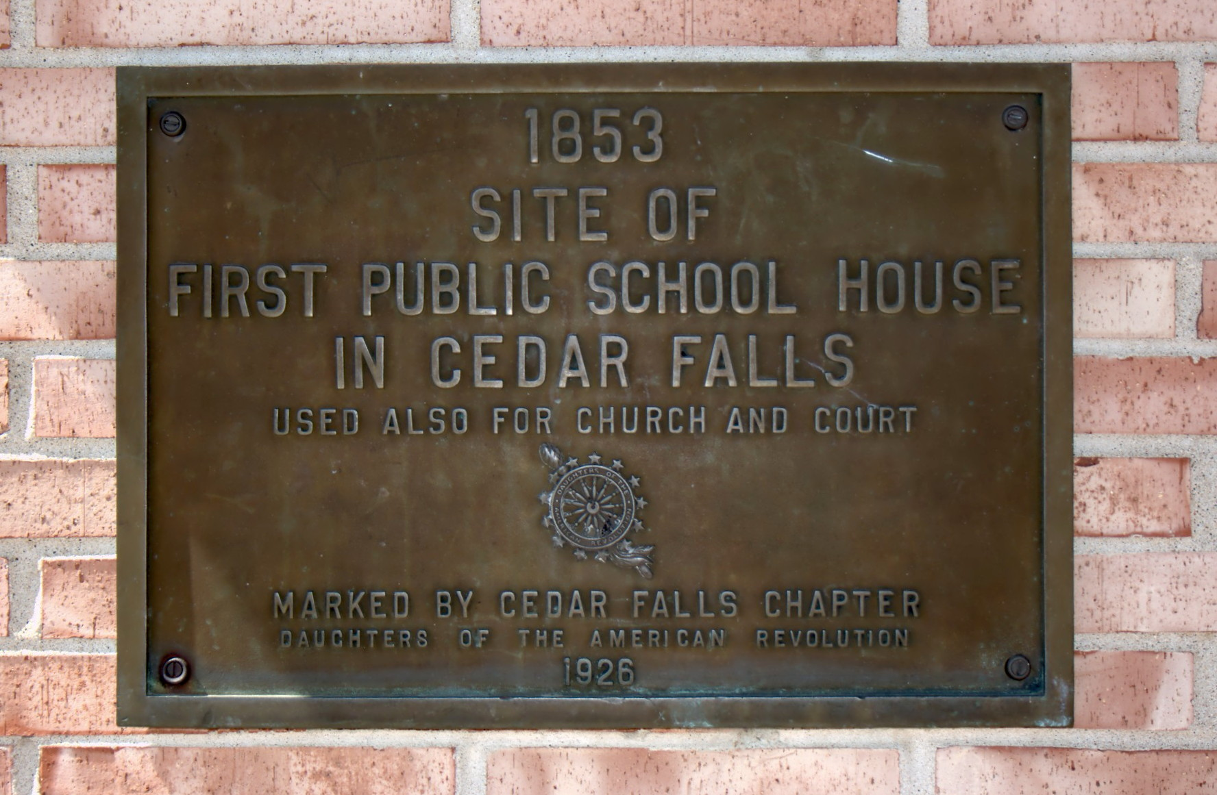 Marker commemorating the "1853 Site of First Public School House in Cedar Falls". Located at the corners of 5th Street and Main Street in downtown Cedar Falls. Image taken with Canon EOS 400D in daylight with built-in flash to fill.